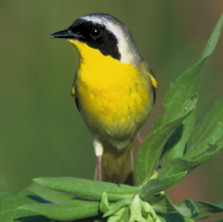 Common Yellowthroat Cropped from U.S. Fish and Wildlife Service Digital Library System Title: Common Yellowthroat Alternative Title: Geothlypis trichas Creator: Menke, Dave Source: WV-Menke Birds-1-7455 Publisher: U.S. Fish and Wildlife Service Contributor: NATIONAL CONSERVATION TRAINING CENTER-PUBLICATIONS AND TRAINING MATERIALS Rights: (public domain) Subject: bird, Desoto National Wildlife Refuge, NWR, Iowa, neotropical migrant, migratory Available: January 02 2003 Issued: December 30 2002 Modified: May 10 2004